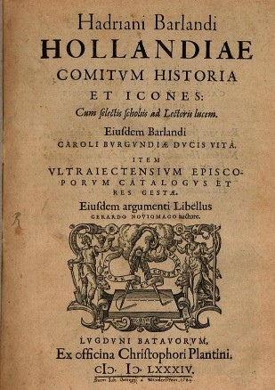 Adrianus Barlandus (1486-1538), Hollandiae comitum historia et icones, 1584